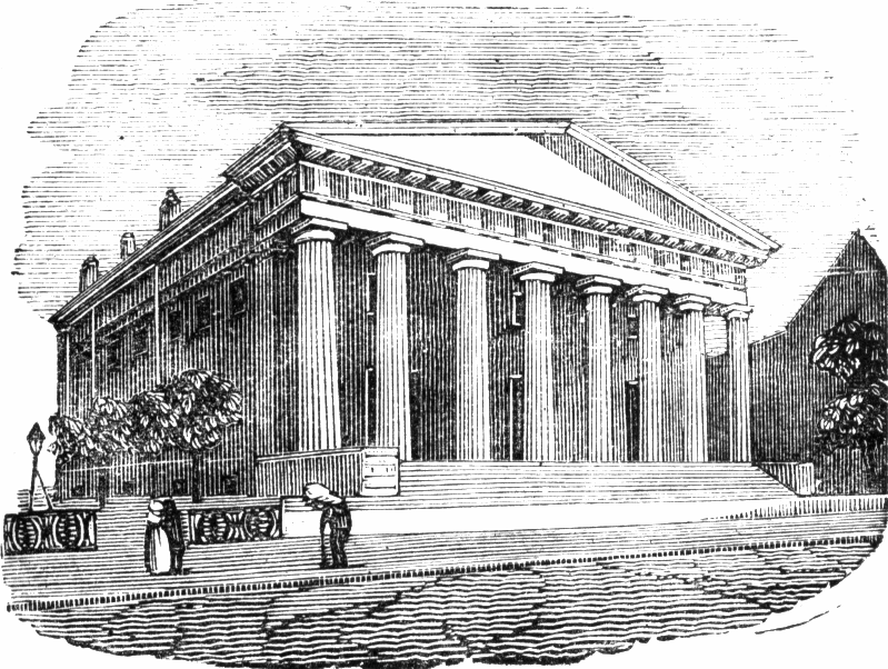 Caption: "United States Bank at Philadelphia" Text: "The central office of the United States Bank, was a Philadelphia, and a fine marble building was devoted to its use. This bank, which ceased by limitation of its charter, in 1836, to be a national institution, was rechartered by the state of Pennsylvania as a state institution. Thus deprived of the main elements of its strength, and being imprudently managed, it was involved in the bankruptcy which, at the period we are speaking of, spread over the country. The building above alluded to, which is still one of the ornaments of the city of Philadelphia, is now used for the Custom House of this city."